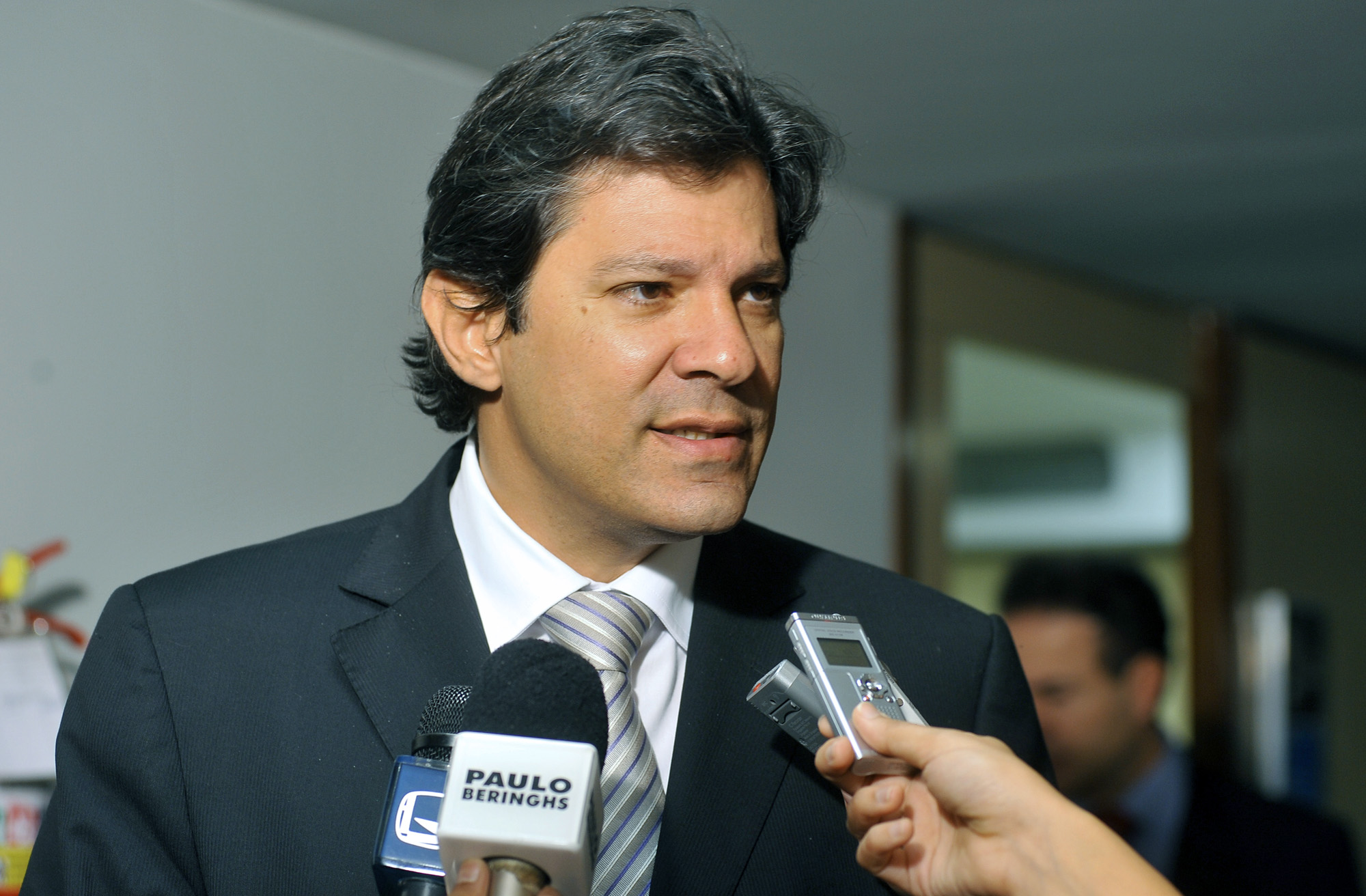 Corredor dos PlenáriosMinistro da Educação Fernando Haddad concede entrevistaFoto: Brito Júnior24.03.10